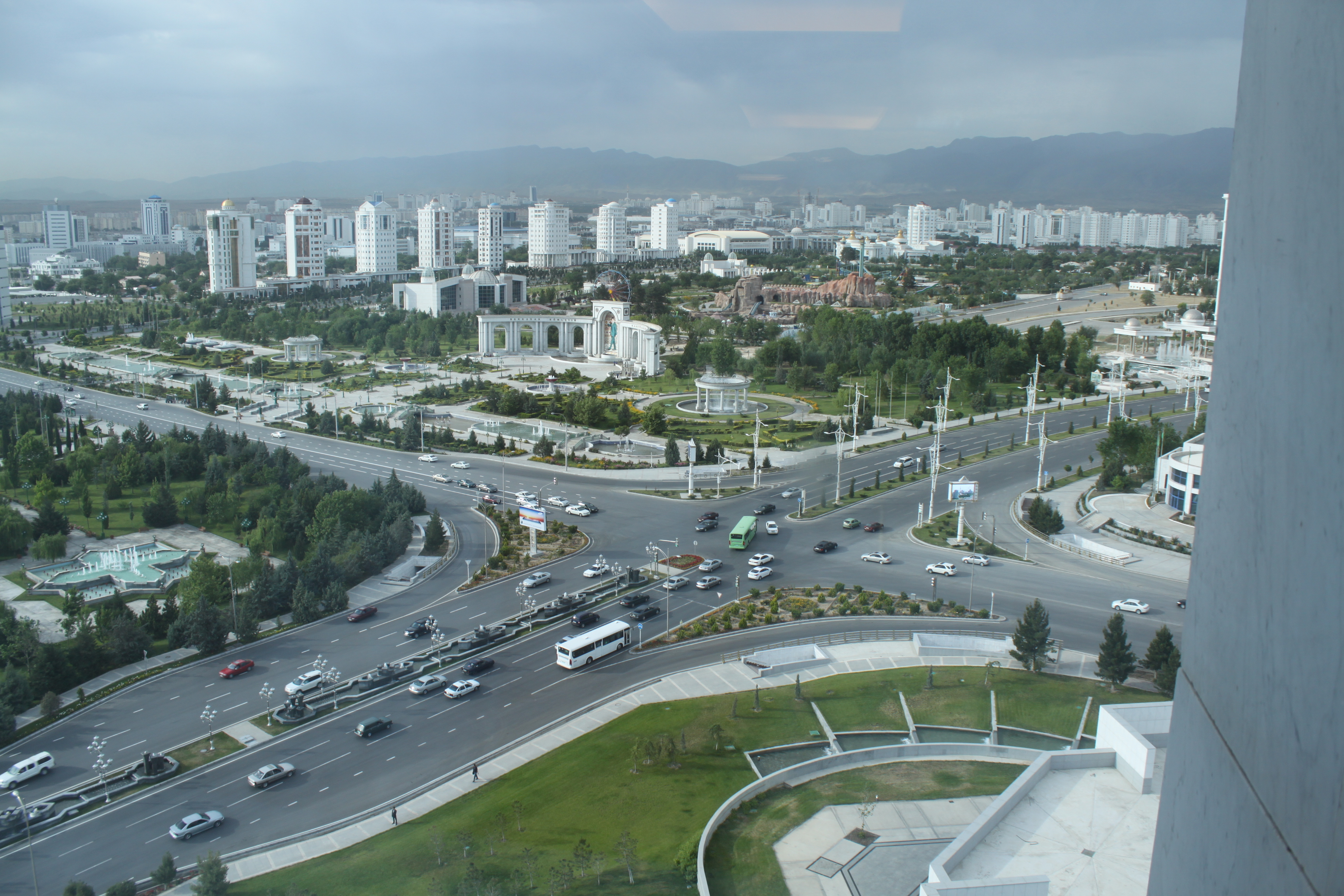 Ashgabat from Sofitel IMG_5360